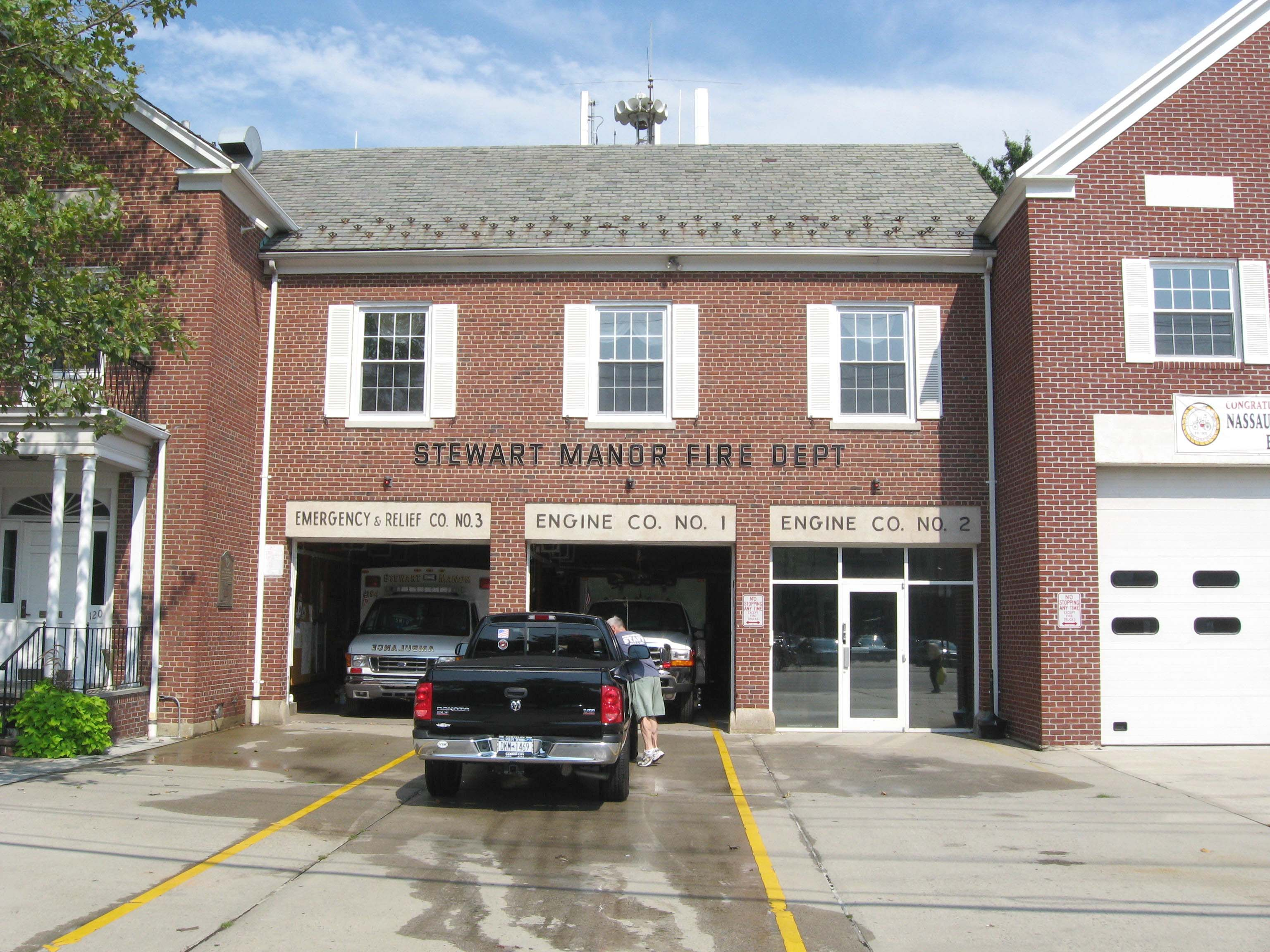 Looking east across Covert Avenue at Stewart Manor, New York firehouse (integrated with village hall) on a clearing early afternoon